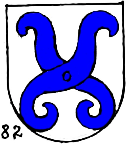 a old tool to handel a cooking pot